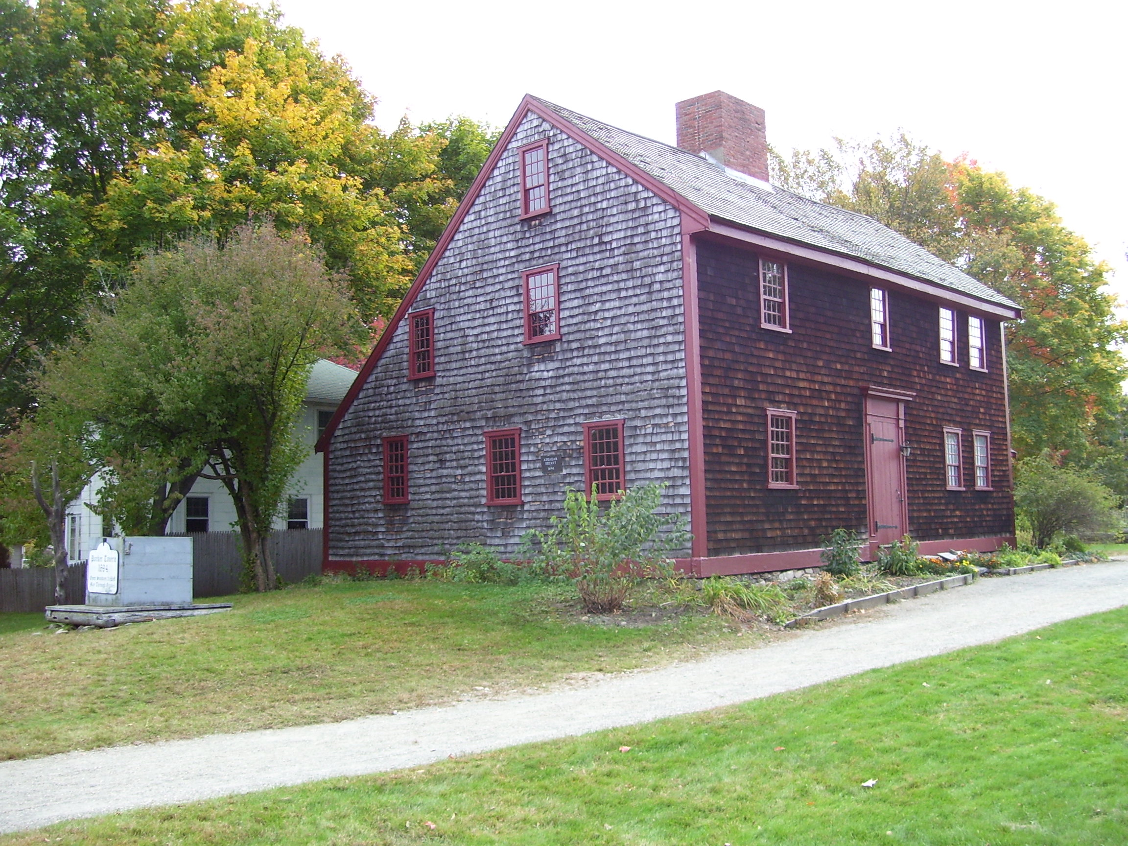 This is my 2008 photo of Park Tavern in Reading, Massachusetts.